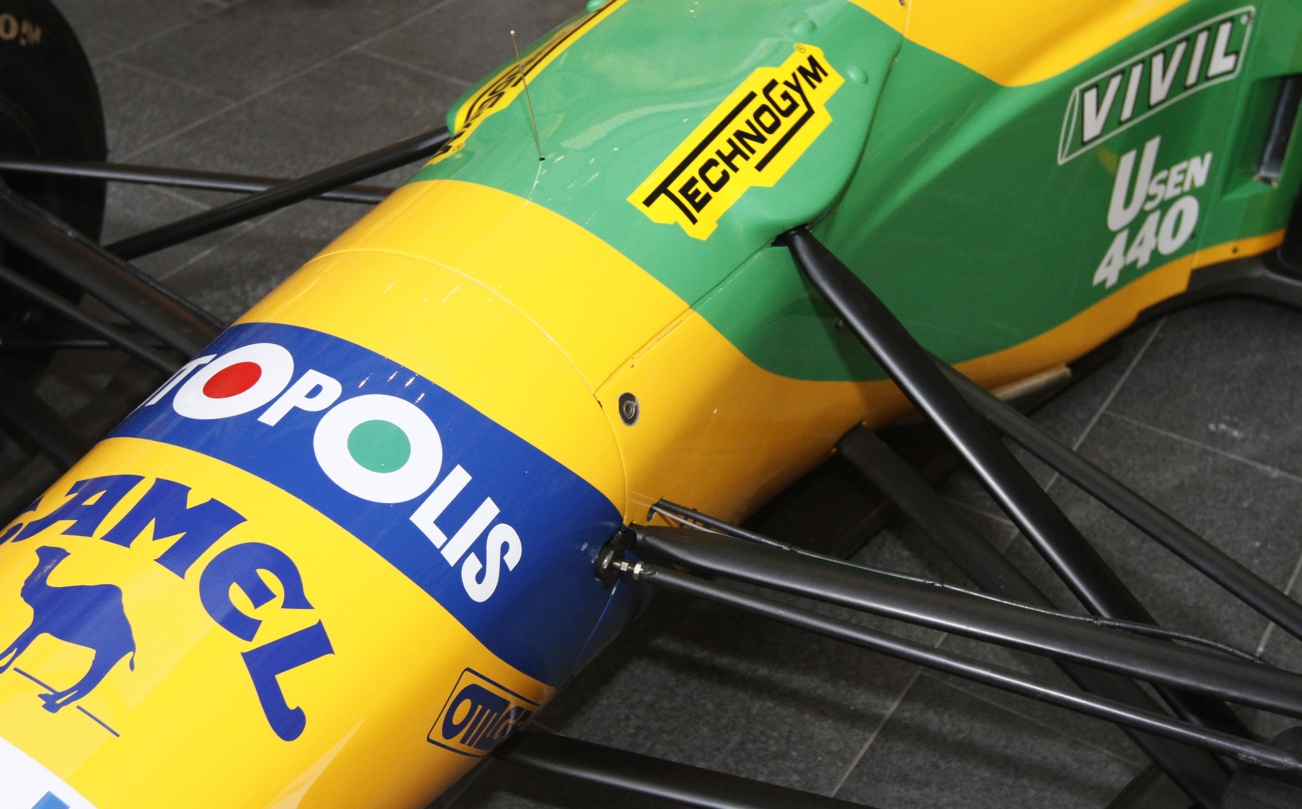 Pavilion Pit Stop 2010: Benetton B192's suspension mount